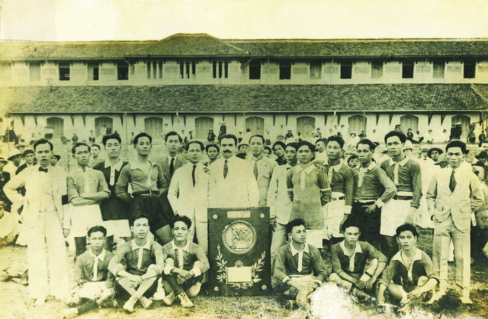 Vietnamese footballers with French colonial officials during the Championat de Cochinchine